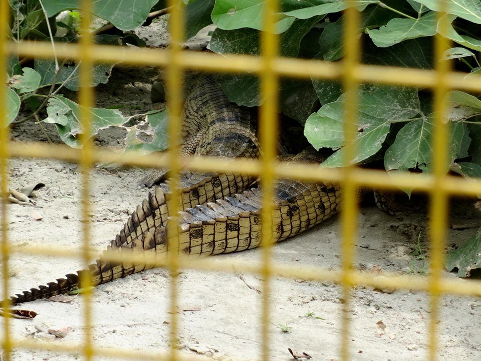 Pair of Ghariyal resting on Shadow.